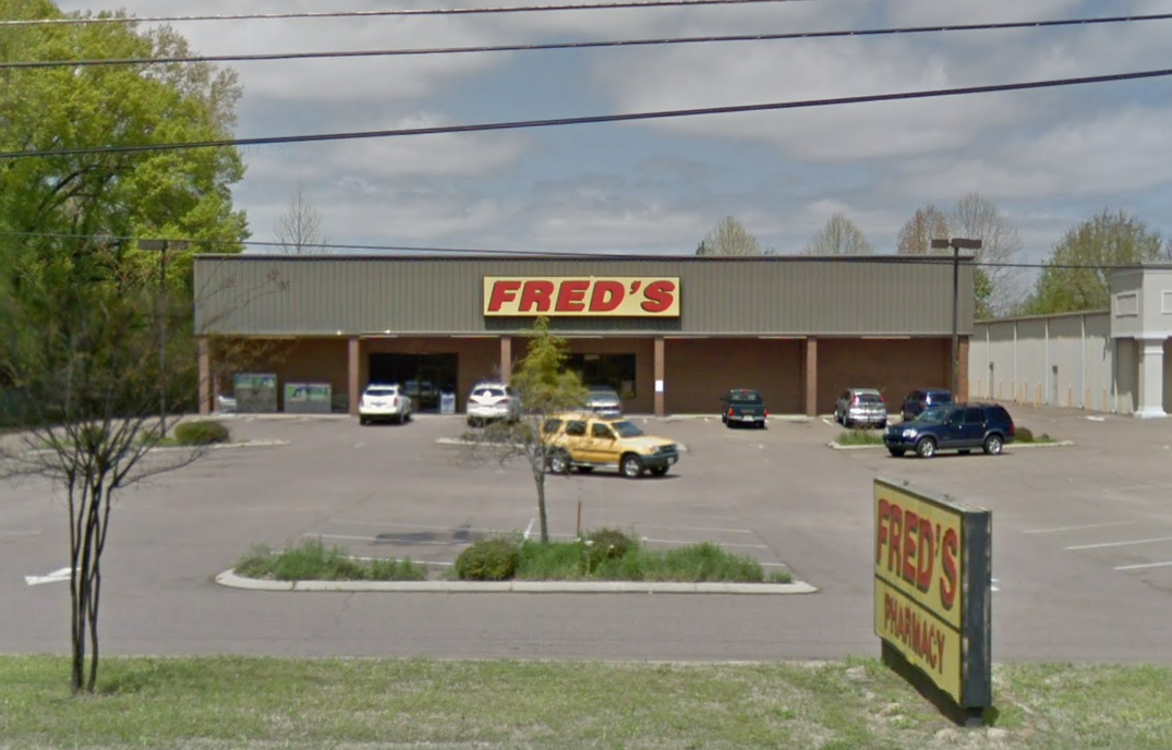 Fred's store in Arlington, Tennessee. With the logo on the exterior used prior to 2007.